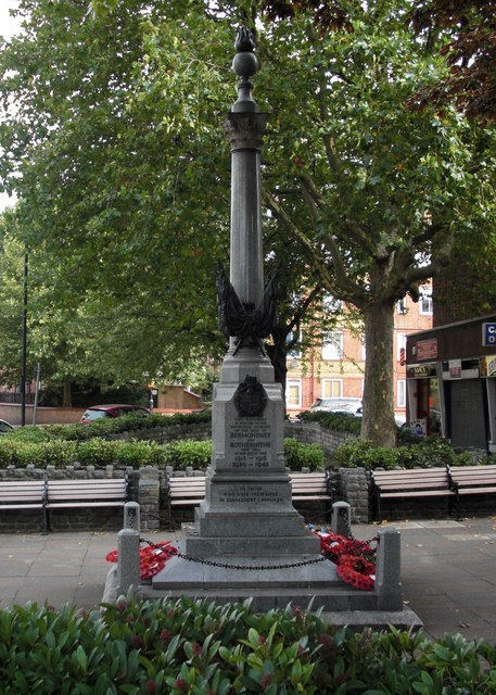 War Memorial - West Lane, Rotherhithe, SE16 Dedicated to the men of Bermondsey and Rotherhithe who died in WWI and later to those who died in WWII and subsequent conflicts. Unveiled 3-00pm Saturday 8th October 1921 with a great deal of the finances supplied by Peak Freans Ltd - biscuit manufacturers of Bermondsey. West Lane is / was the boundary between Bermondsey and Rotherhithe.